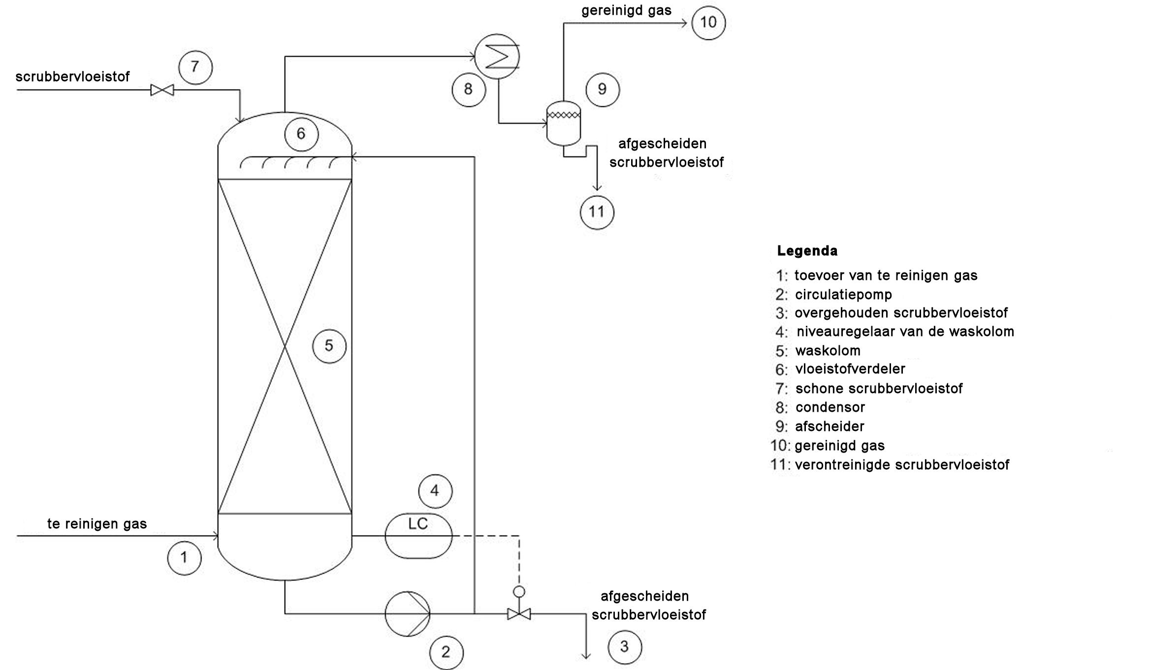 gaswashing